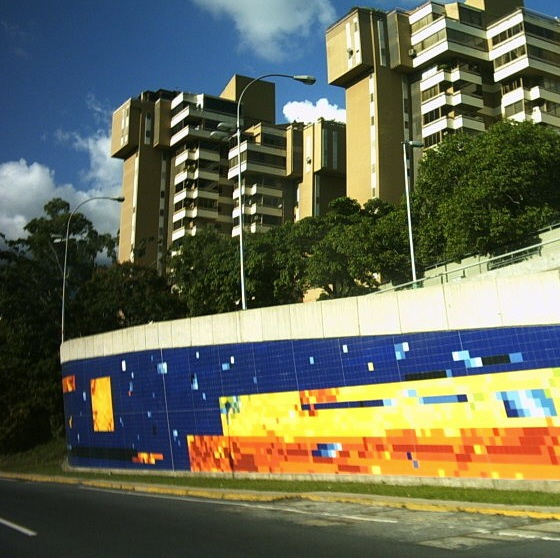 Mural Jardin Luminico by the Venezuelan artist Patricia Van Dalen. The author of this photo is Guillermo Ramos Flamerich, August 2006. Guillermo Ramos Flamerich